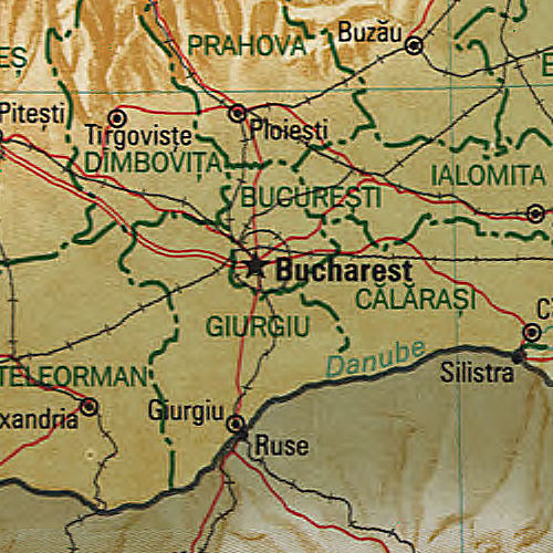 Map of Giurgiu County and Ilfov County, Romania.